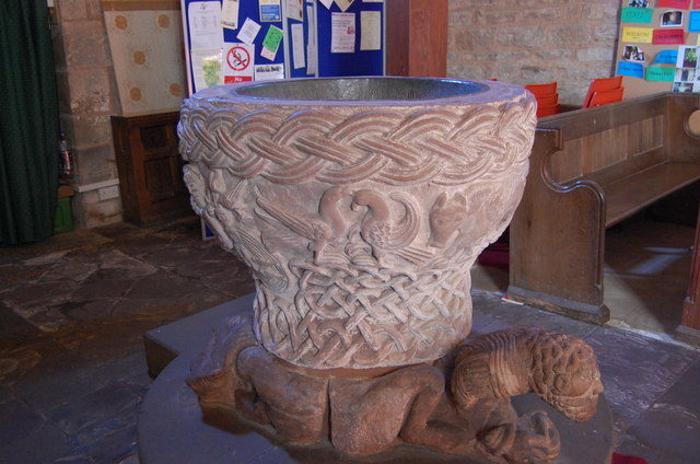 12th-century baptismal font in the parish church of St Michael and All Angels, Castle Frome, Herefordshire. A fine example of Norman sculpture of the Herefordshire School.